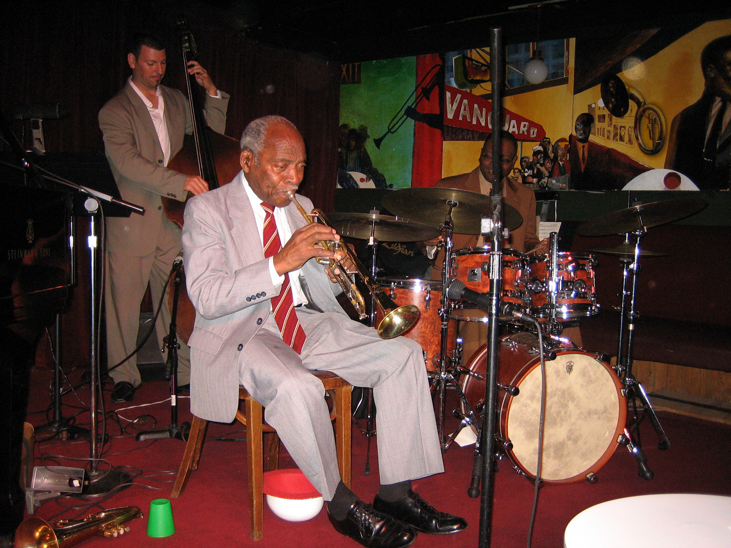 Joe Wilder,trumpet, Lewis Nash, drums and Jon Webber, bass Live At The Village Vanguard, New York CIty, July 21, 2006.